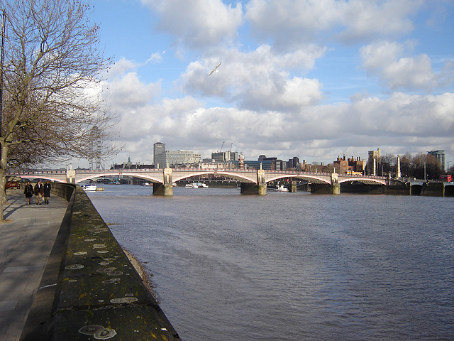 Lambeth Bridge looking downstream from Millbank, London. 21 January 2006. Photographer: Fin Fahey.